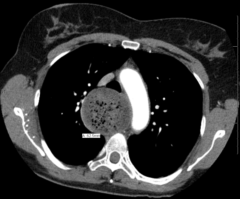 A transverse CT image showing marked dilatation of the esophagus.